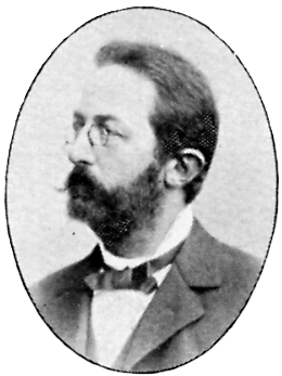 Image scanned from the book "Svenskt Porträttgalleri XX - Arkitekter, Bildhuggare, Målare m.fl. " ("Swedish Portrait Gallery XX - Architects, Sculptors, Painters, ") published 1901